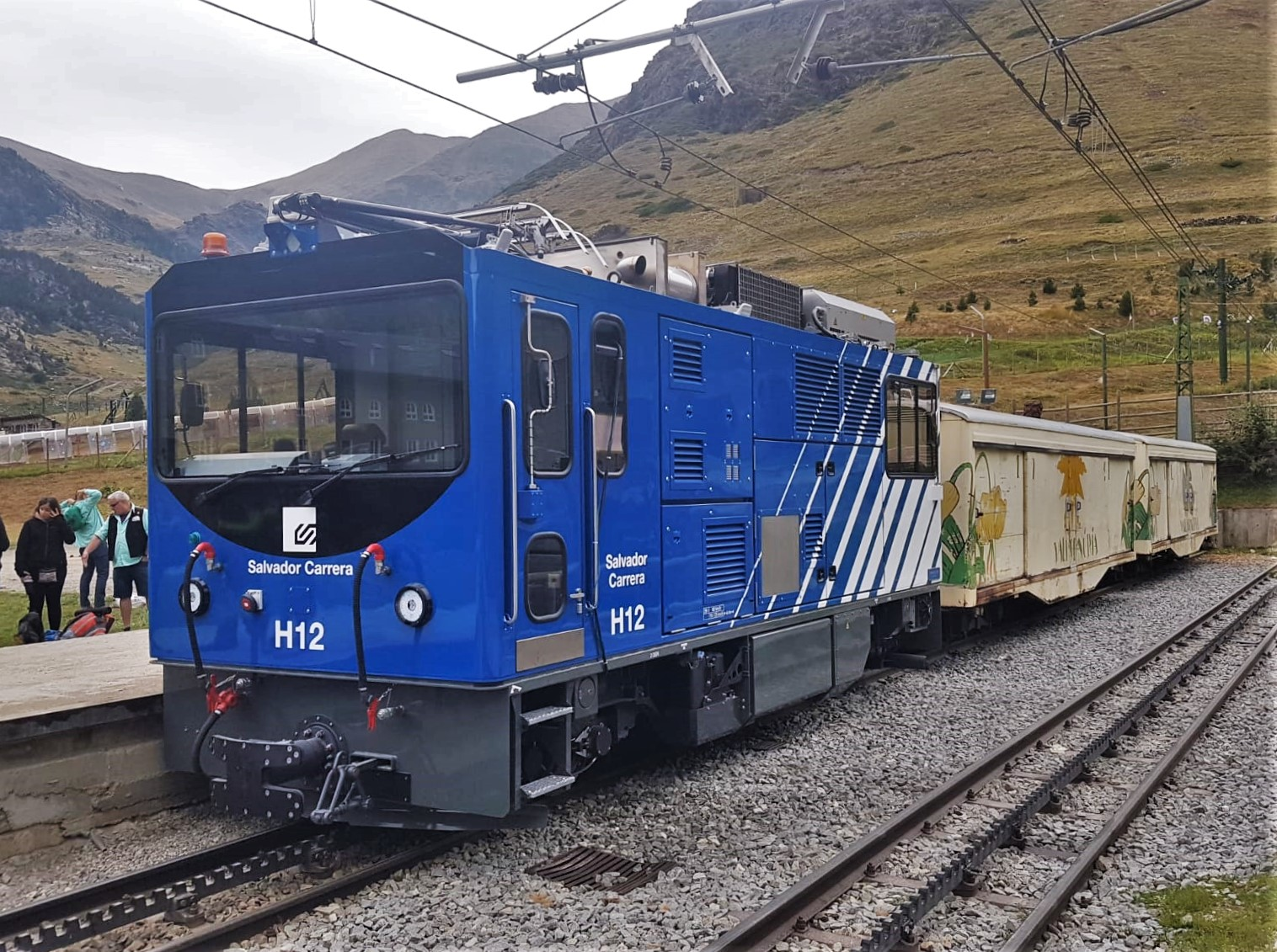 The dual-mode electro-diesel locomotive H12 of the Nuria rack-railway, of Ferrocarrils de la Generalitat de Catalunya, at the Núria station on the day of its baptism.